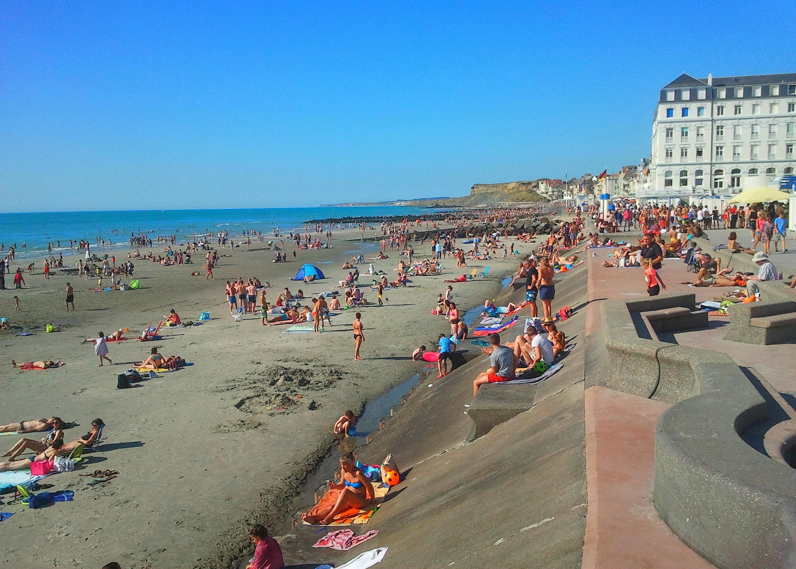 Beach of Wimereux (North of France)